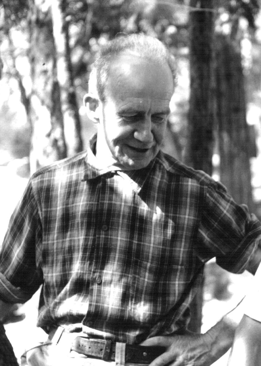 John Salathé at Camp 4, Yosemite Valley, California, October 1964.